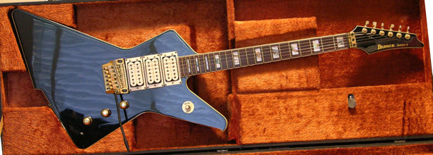 1985 Ibanez Destroyer Model DT-555